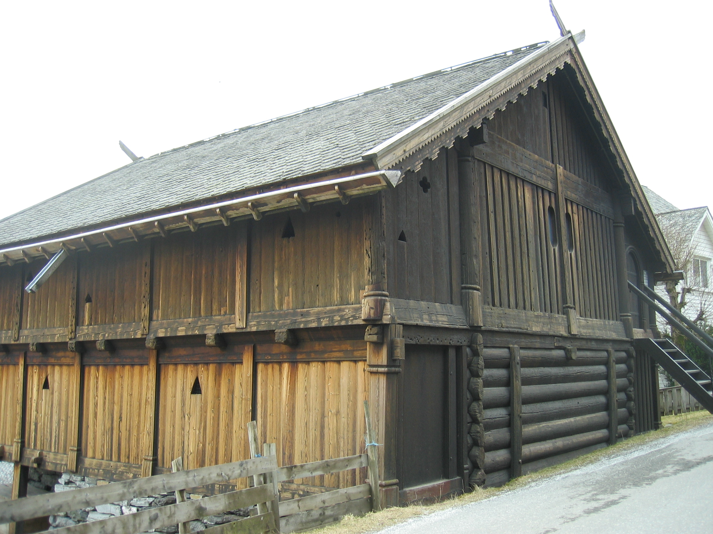 Finnesloftet, Voss, Norway. A medieval Guild Hall from about 1295. Nynorsk: Finnesloftet, Voss, Noreg. Bygd kring år 1295.